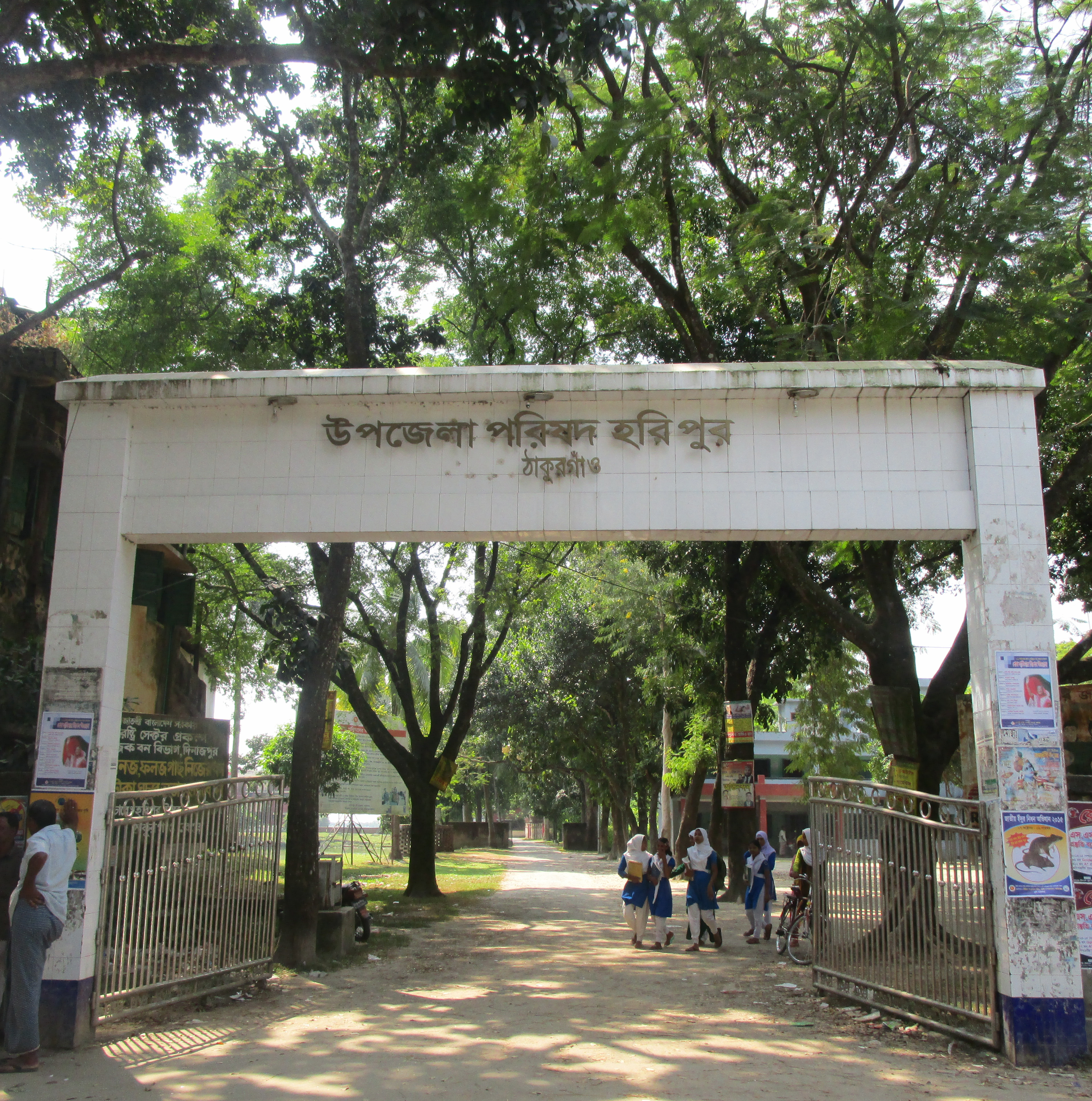 Haripur Upazilla Parishad office nameplate.